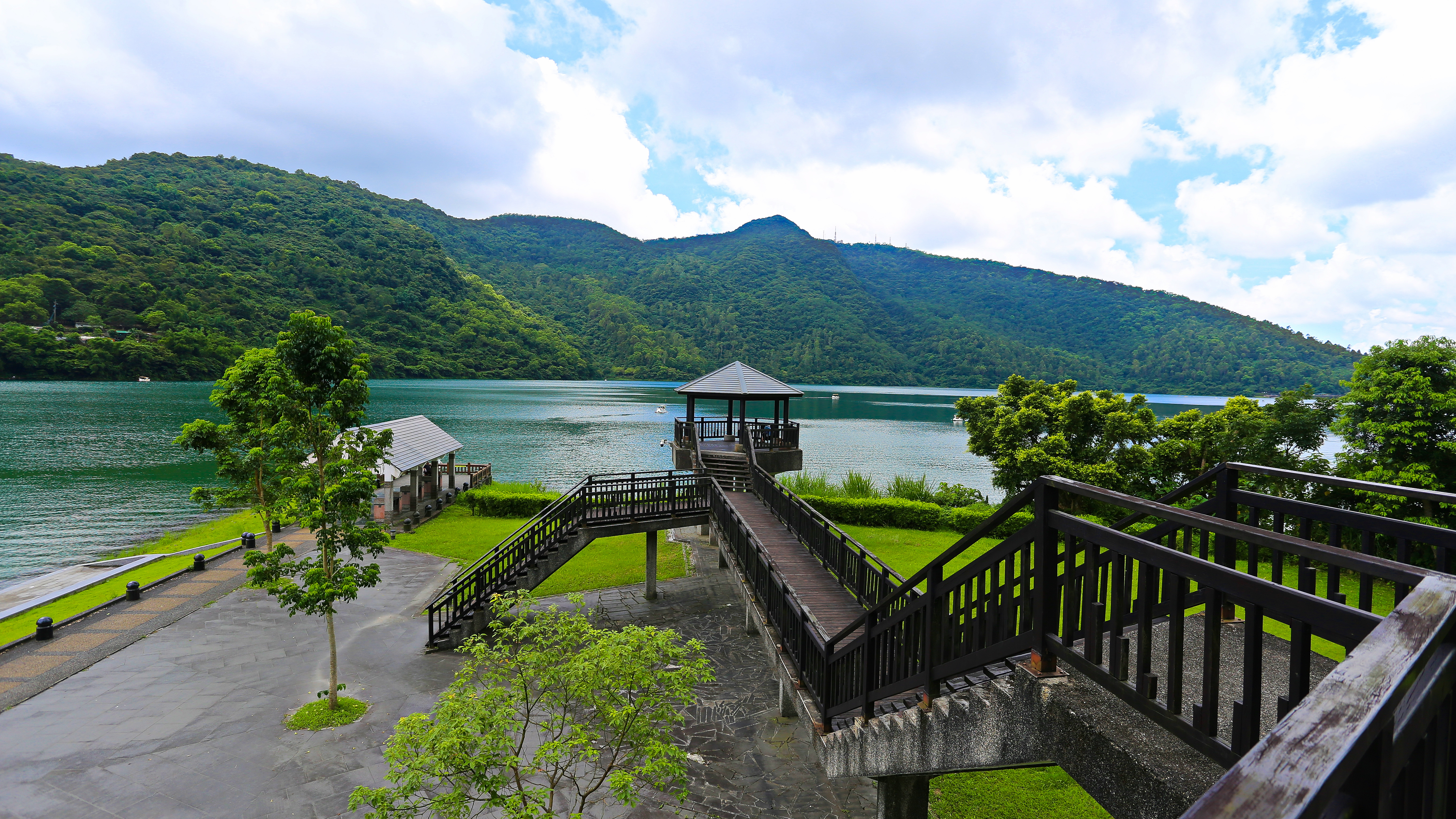 Liyu Lake, Shoufeng Township, Hualien County, Taiwan.